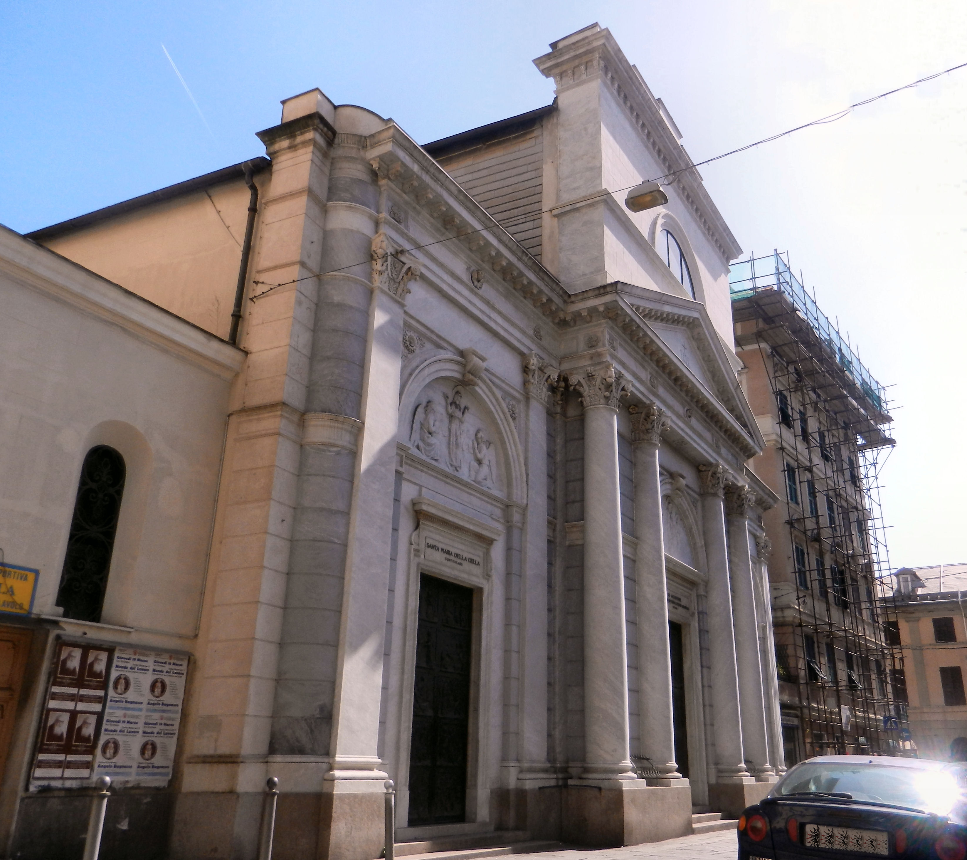 Genoa, Italy, quarter of Sampierdarena, church of di Santa Maria della Cella